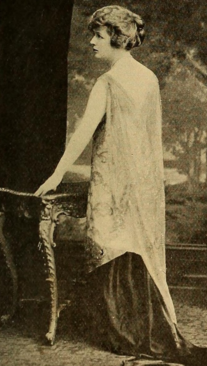 Katherine Harris Barrymore aka Katherine Corri Harris as Lily Bart in the American film The House of Mirth (1918), picture from the film.